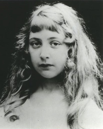 Childhood photo of English author Agatha Christie promoting the 1977 book An Autobiography, by Agatha Christie.